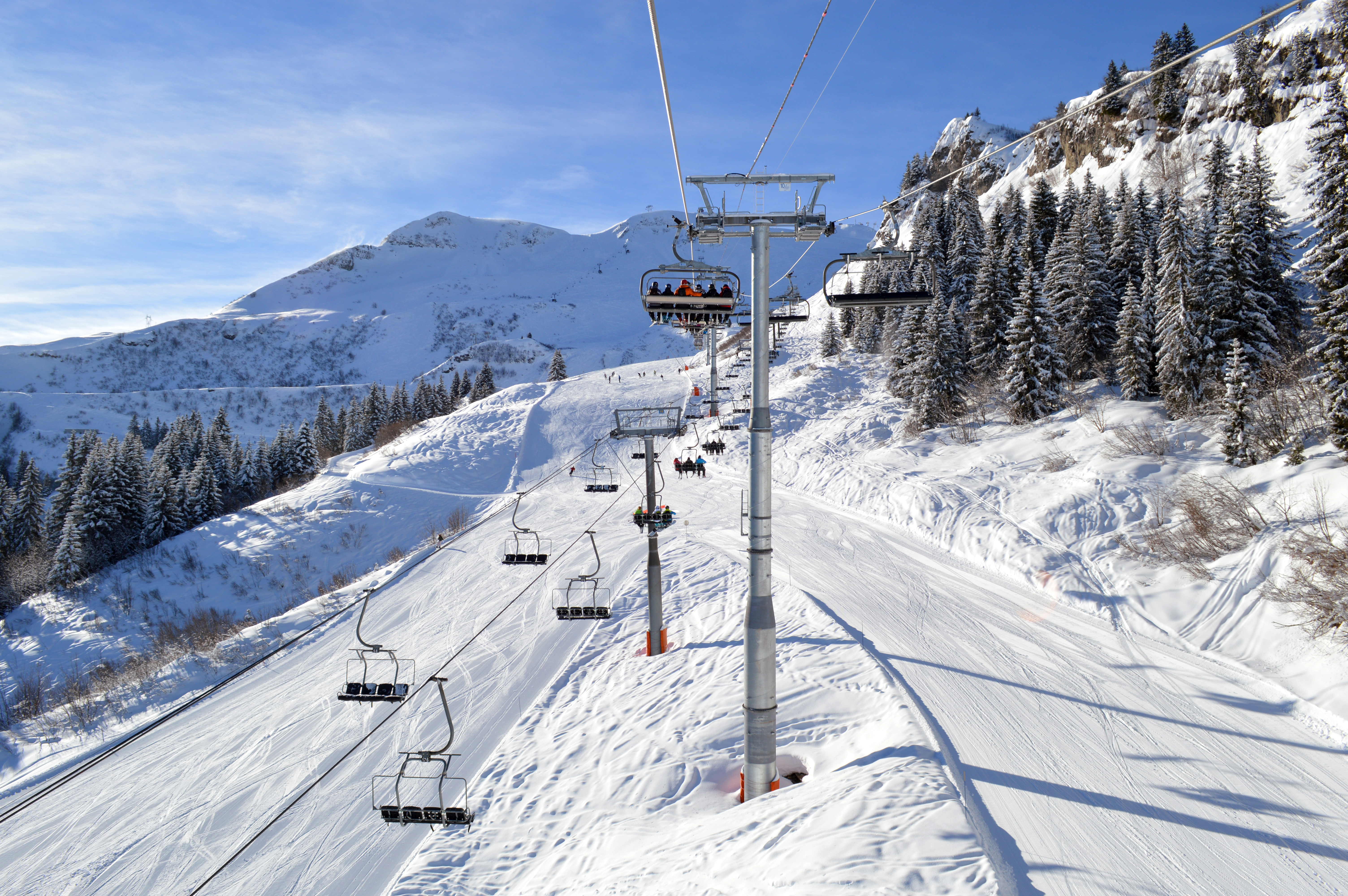 The Chariande Express chairlift crosses the Chariande 2, both in the Samoëns ski resort (Grand Massif). The Chariande Express (from which this picture is taken) heads towards Tête de Saix (2188 m).